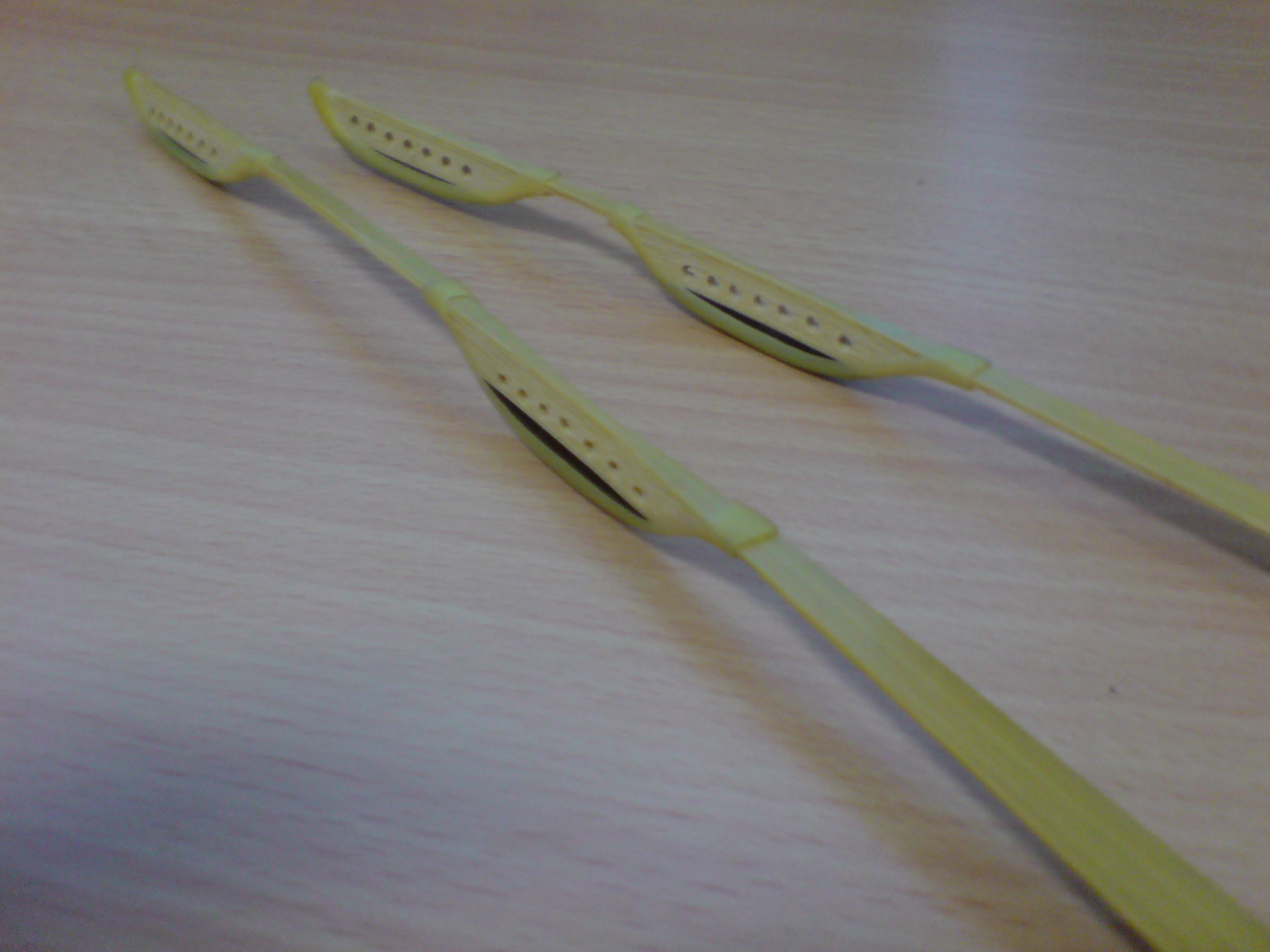 The striking surfaces of a pair of double-headed yangqin hammers (shuangyinqinzhu).